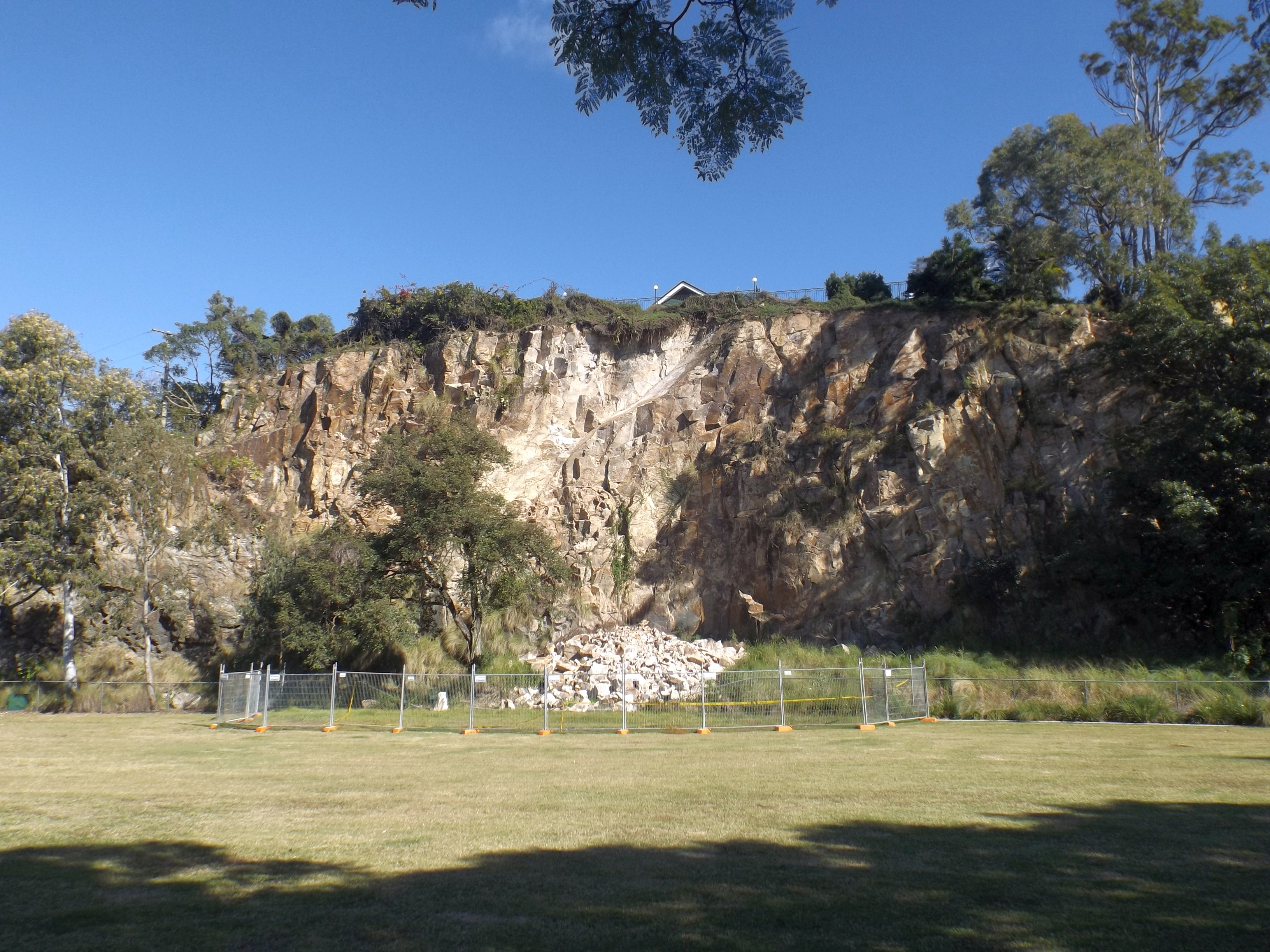 Photo of cliff at Windsor Town Quarry Park and Tramways Substation No. 6 at Windsor, Brisbane, Queensland, Australia.